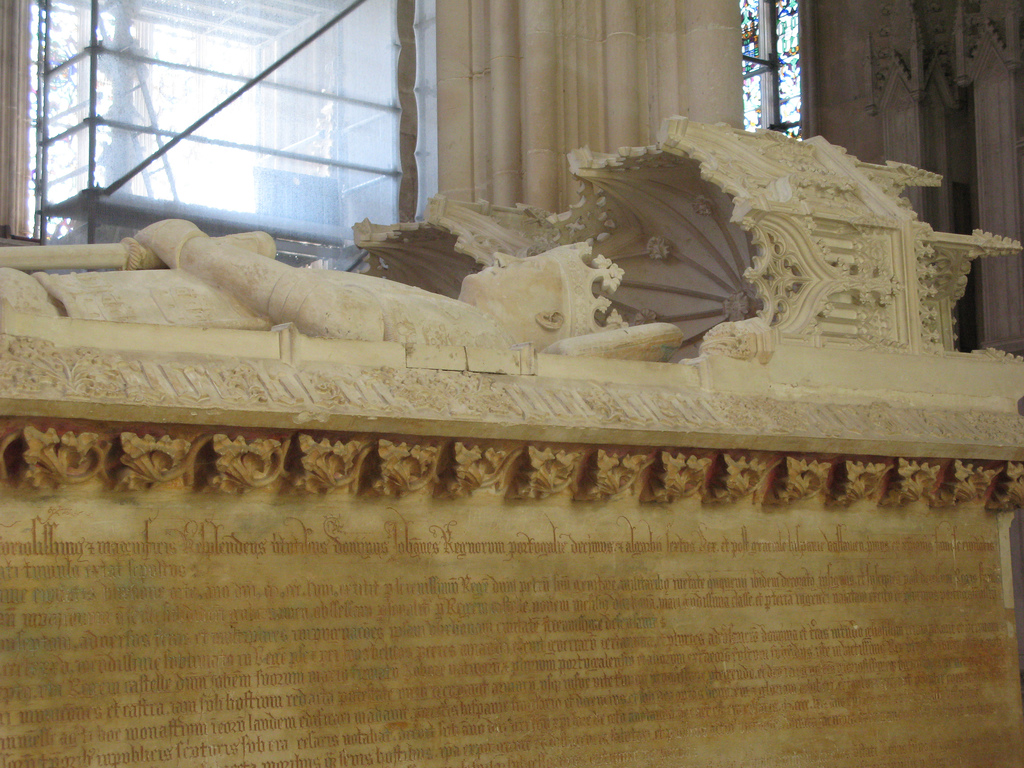 Tomb of King John I in Batalha Monastery, Portugal